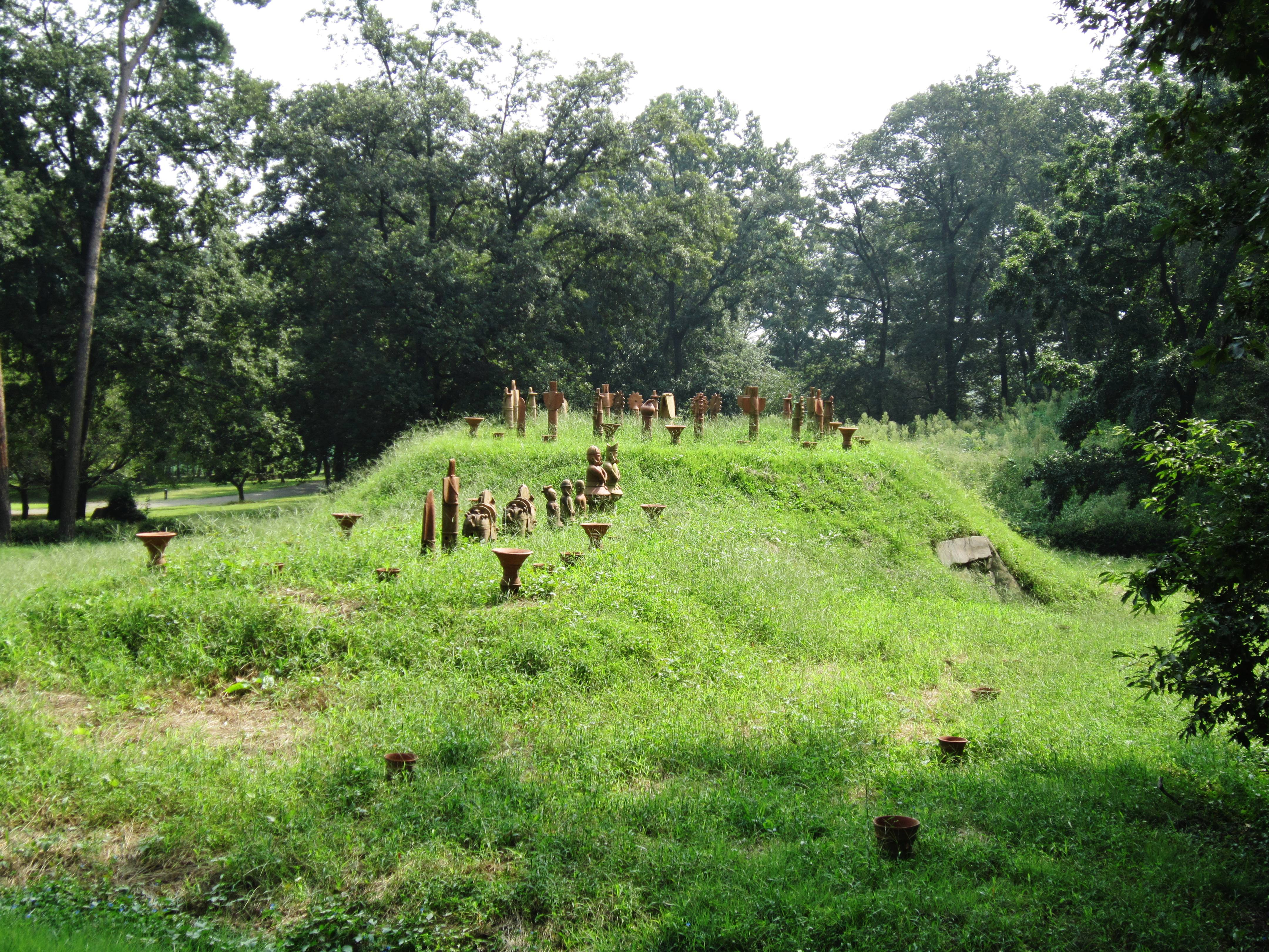 Omuro Park Shofutago-kofun.